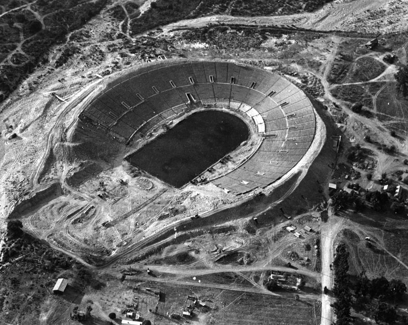 Rose Bowl under construction After crowds out-grew Pasadena's Tournament Park, architect Myron Hunt drew up plans for the construction of the Rose Bowl stadium in 1920. On January 1, 1923, USC beat Penn State, 14-3, in the first Rose Bowl game. The stadium was enlarged several times, with the south end completed in 1928.